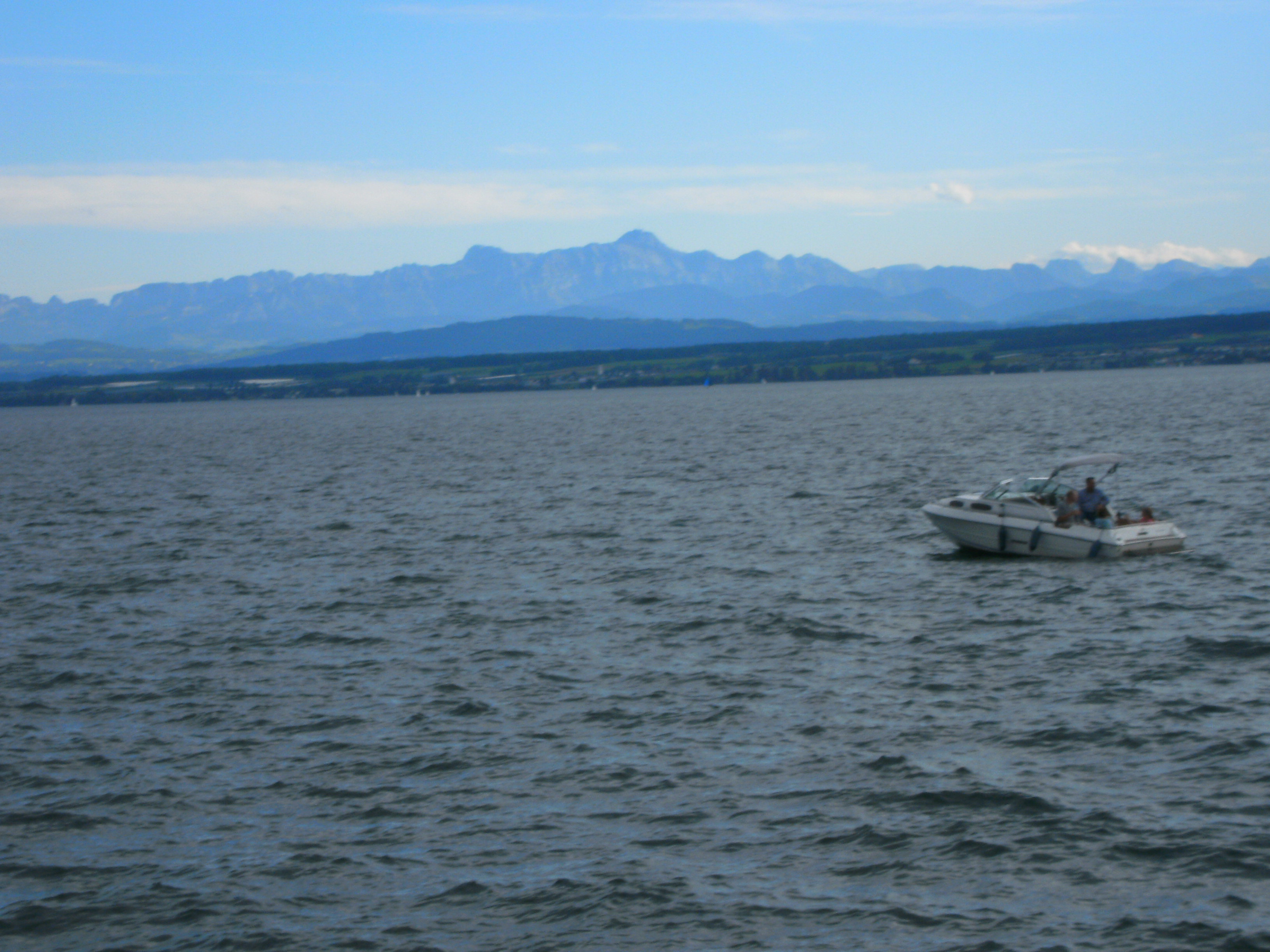 Meersburg, Germany: View of the Alps and Bodensee (Lake Constance) from Seepromenade.